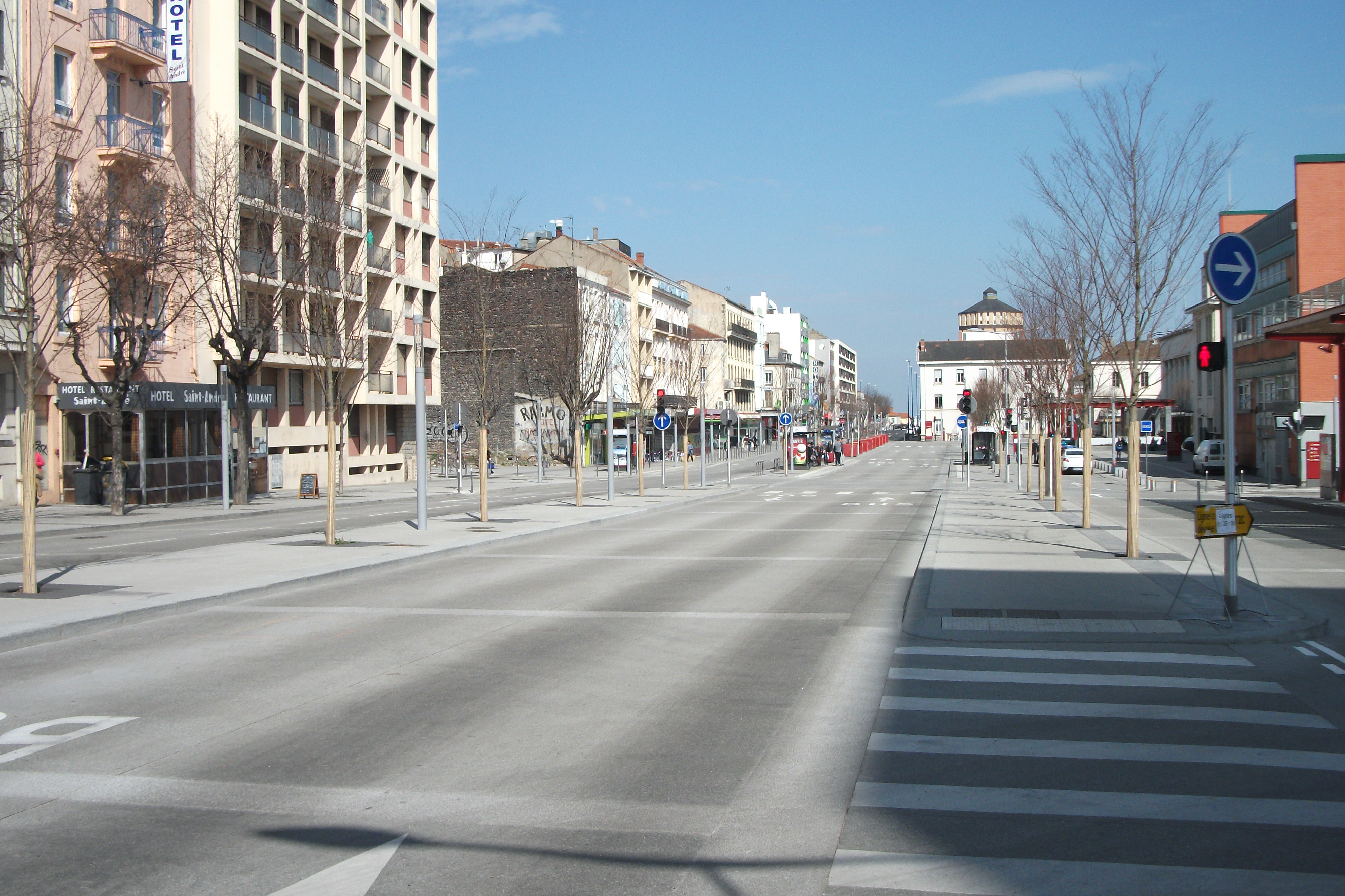 Bus lane, Soviet Union Ave, Clermont-Ferrand - New intermodal hub - Platforms 2 and 3